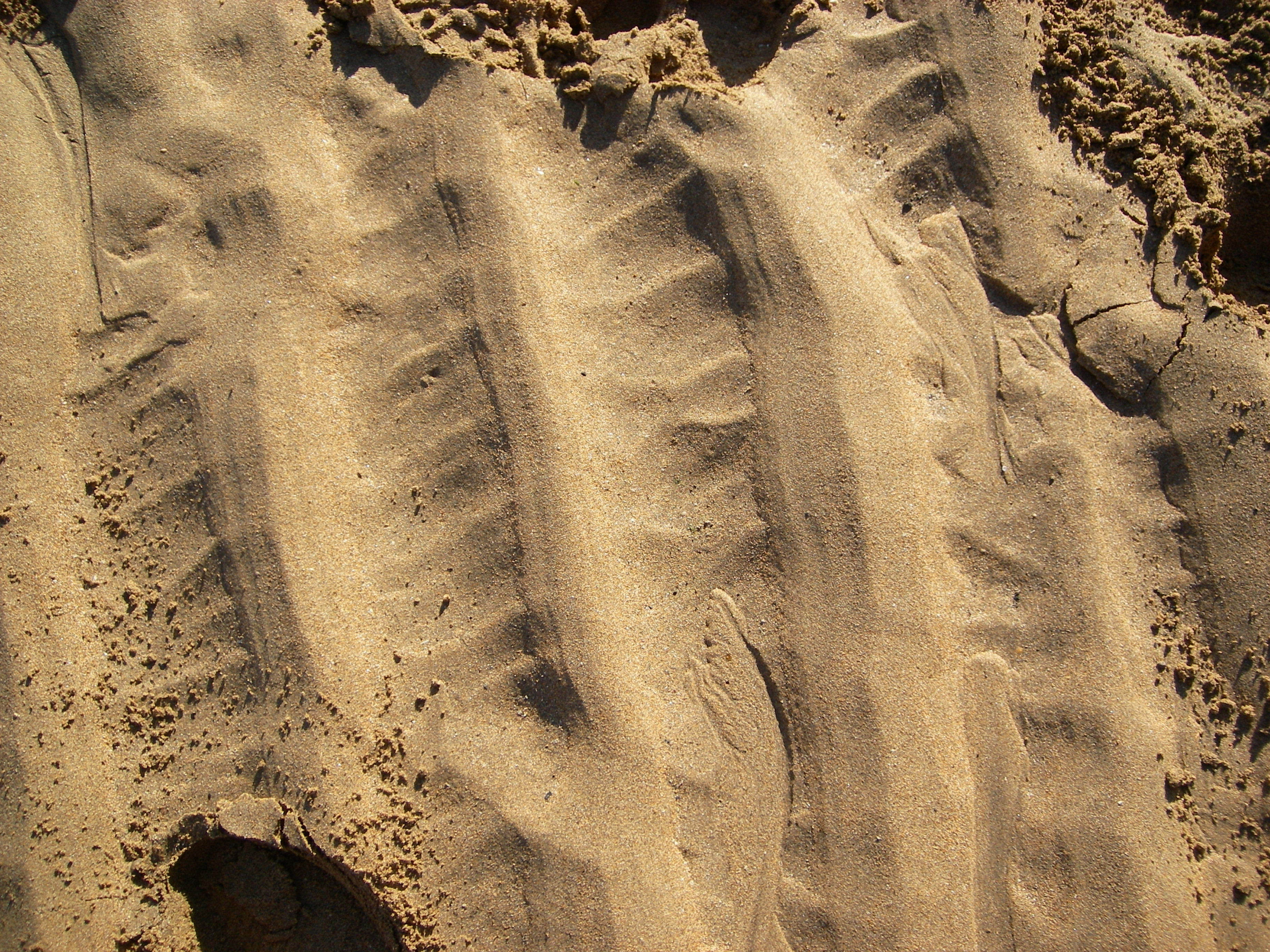 Current secondary ripples formed between wind-eroded symmetrical wave ripples. Located in Urdaibai estuary (Basque Country).